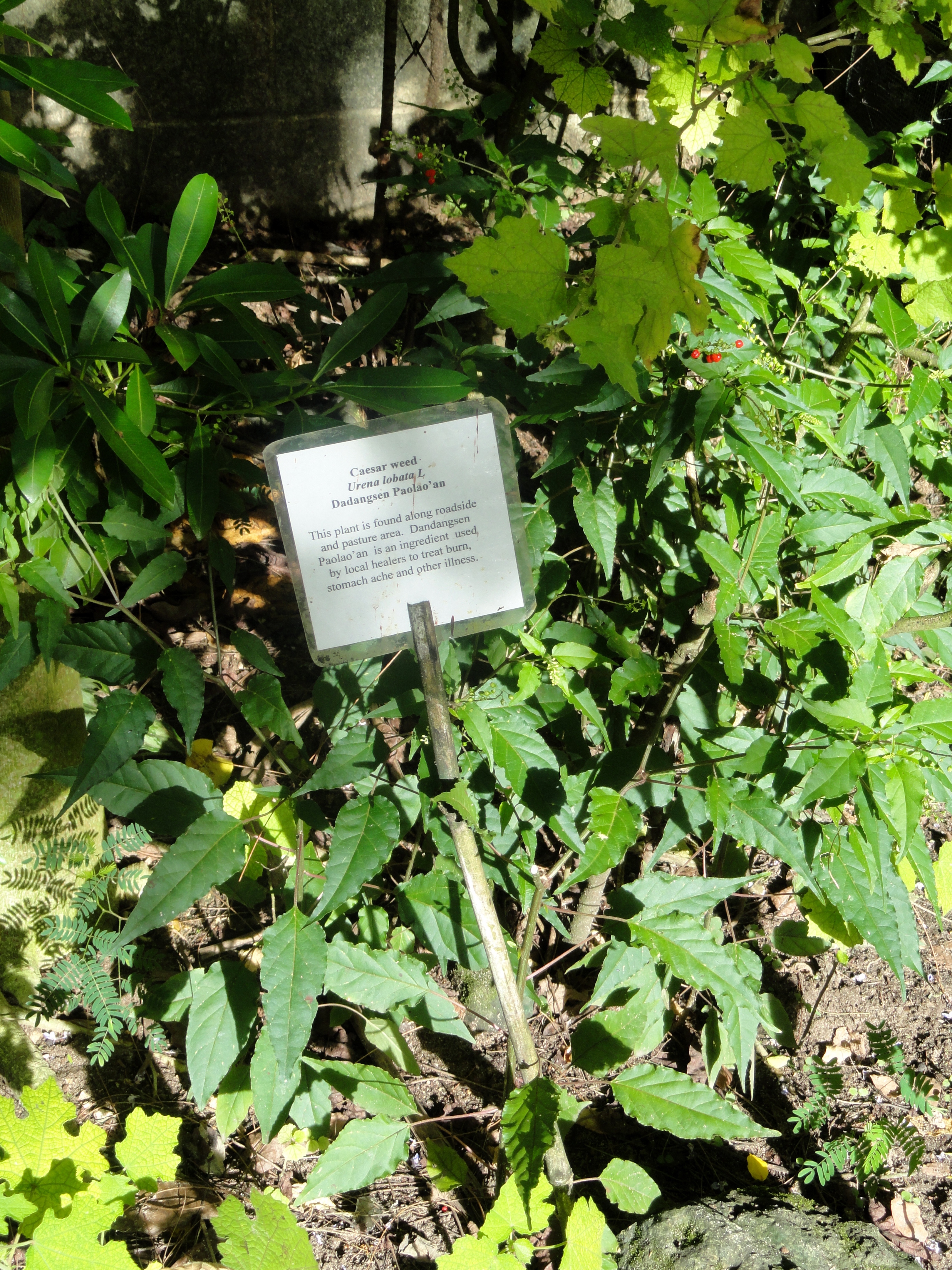 Guam Zoological, Botanical and Marine Garden, Tumon Bay, Guam, USA.